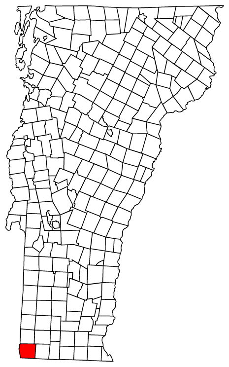 Description: Map of Vermont towns with Pownal highlighted Source: Map created by Jared C. Benedict on 26 March 2004. Copyright: © Jared C. Benedict.